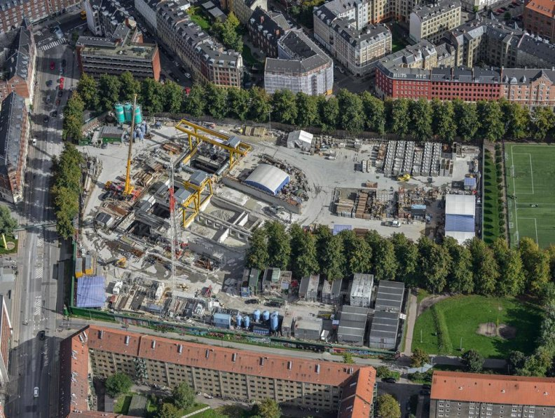 October 2015 air photo of the City Circle Line being built, part of the Copenhagen Metro. I got the following permission to use these images from kjeld madsen on 2015-10-18: Dragør Luftfoto ApS frigiver hermed billederne i galleriet under licensen Creative Commons Attribution ShareAlike 3.0 license.